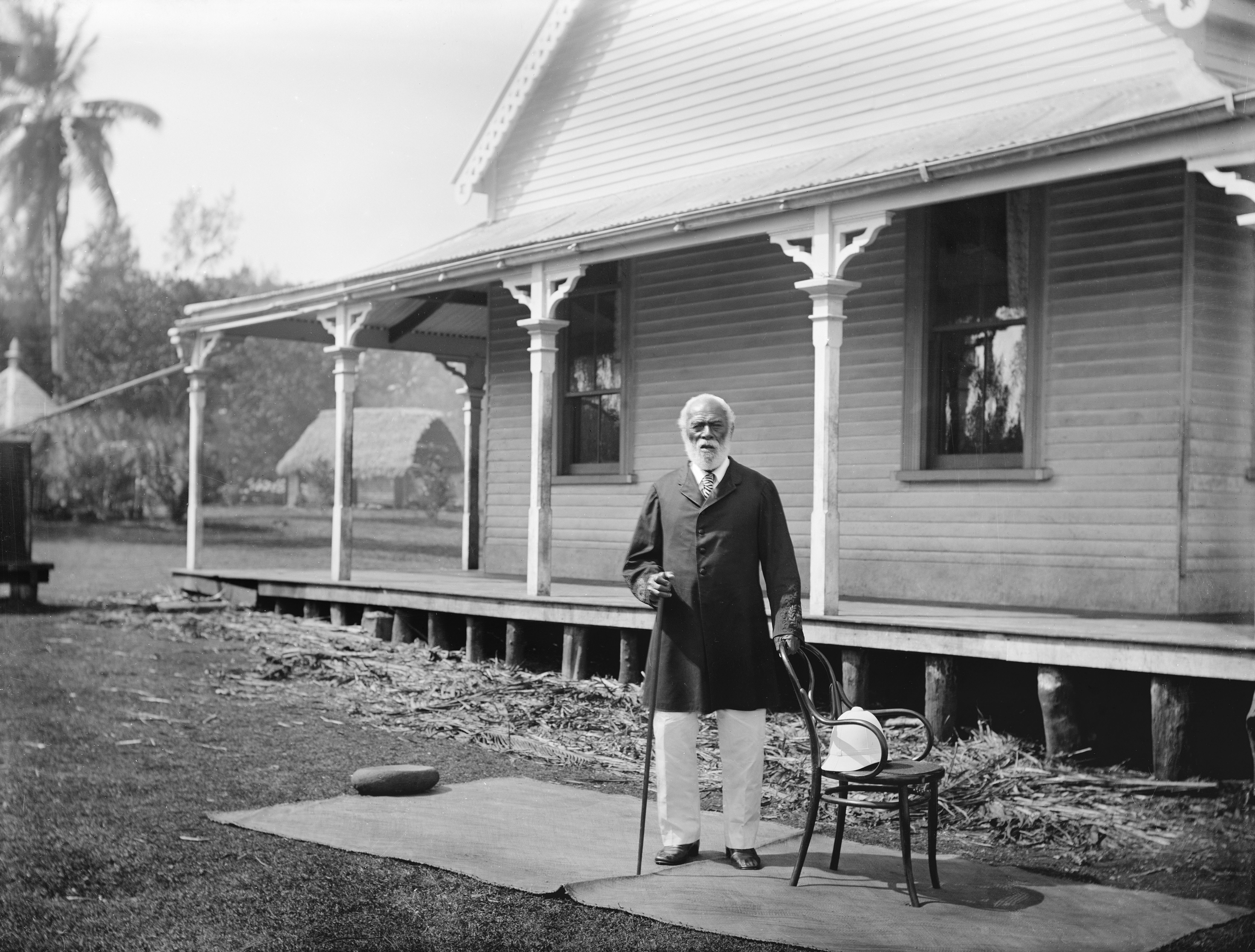 King George of Tonga. Semi-formal outdoor portrait of King George of Tonga, 86 years old, in front of the palace at Neiafu